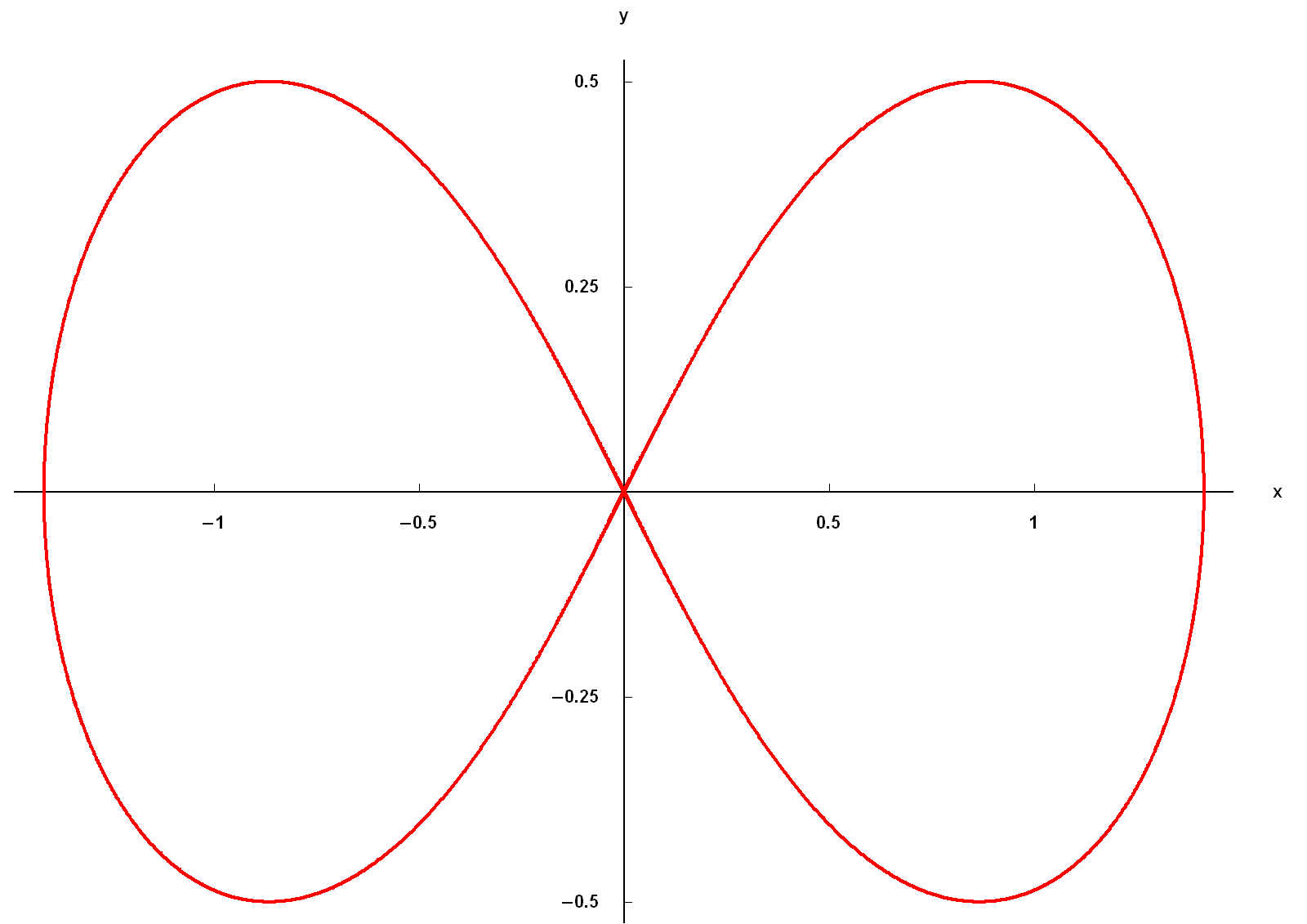 A lemniscate of Bernoulli